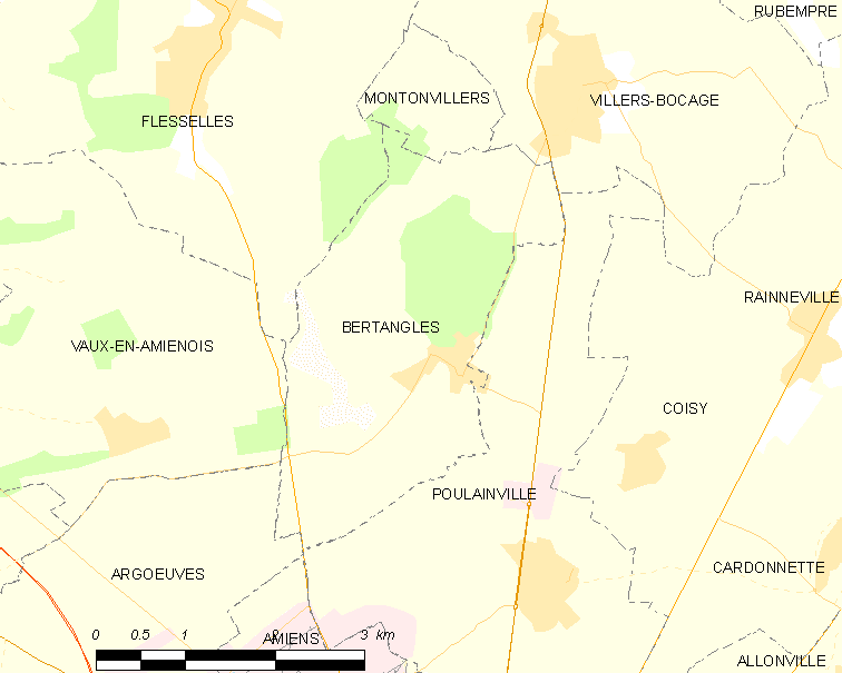 Map of French municipality Bertangles